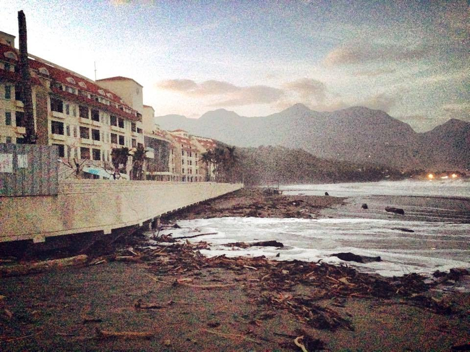 The 'white elephant' BOT Miramar resort